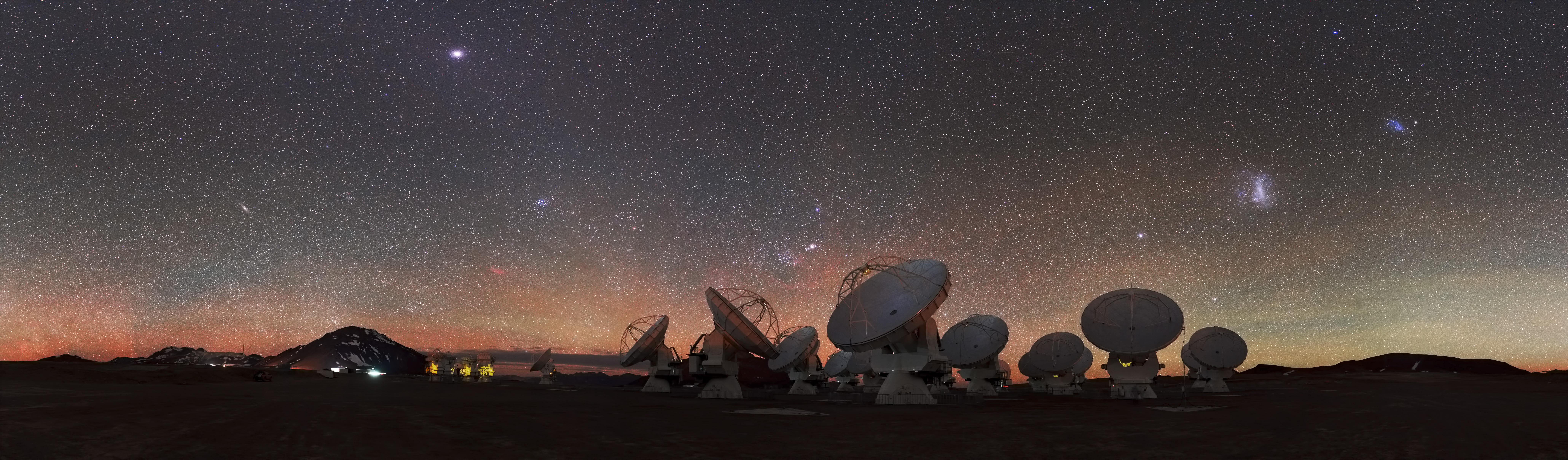 At 5000 metres above sea level, high upon the Chajnantor Plateau in Chile, the antennas of the ALMA Observatory peer skywards, scanning the Universe for clues to our cosmic origins. This plateau is one of the highest observatory sites on Earth. Visible amongst the thousands of stars on the right side of this image are the Small and Large Magellanic Clouds, appearing as luminous smudges in the sky. These cloud-like objects are both galaxies — two of the closest galactic neighbours to our galaxy, the Milky Way. ALMA's main aim is to observe the coldest and most ancient objects in the cosmos — known as the "cold Universe". The array measures radiation emitted in the millimetre and submillimetre wavelengths, which lie in between infrared and radio waves in the electromagnetic spectrum. It features 66 mobile antennas which can be moved and configured over the ALMA site to meet the scientists' requirements, making it the biggest astronomical experiment in existence. This amazing picture of the ALMA landscape was taken by ESO Photo Ambassador Stéphane Guisard, an optics engineer at the European Southern Observatory's Very Large Telescope in the Atacama Desert, Chile.